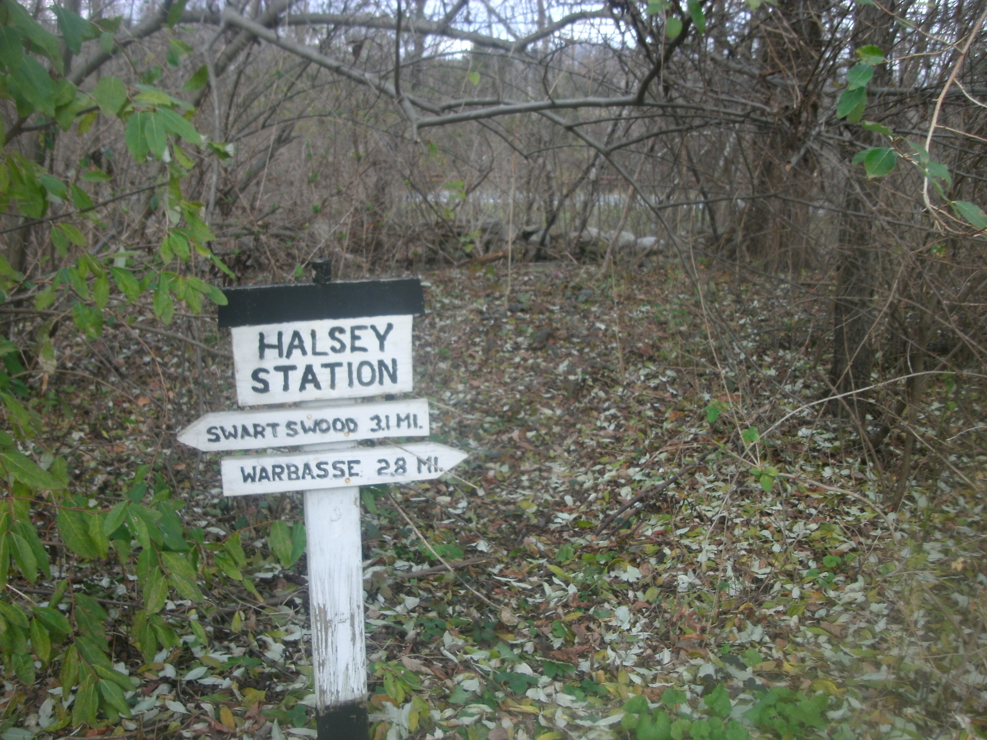 The former station for Halsey, New Jersey on the New York, Susquehanna and Western Railroad. The station foundation is seen a distance behind the sign.